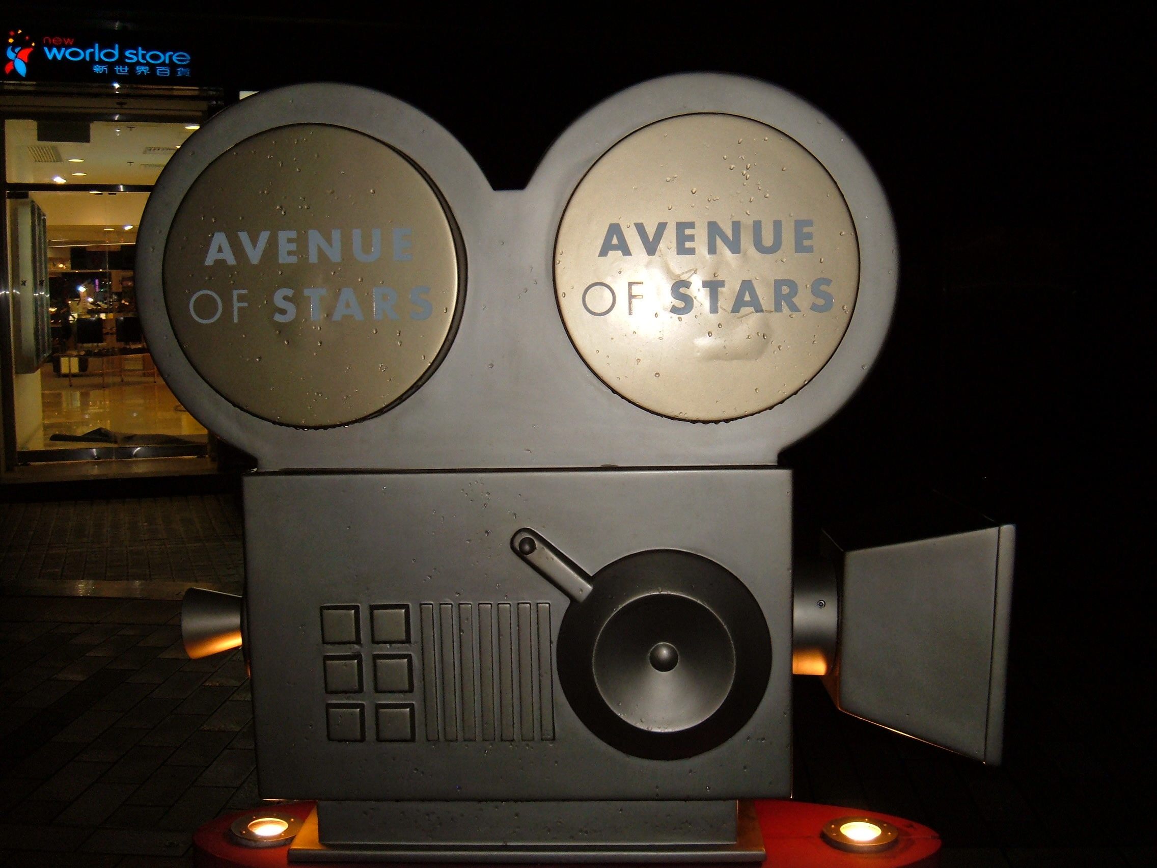 Movie camera sign for the Avenue of Stars in Hong Kong.